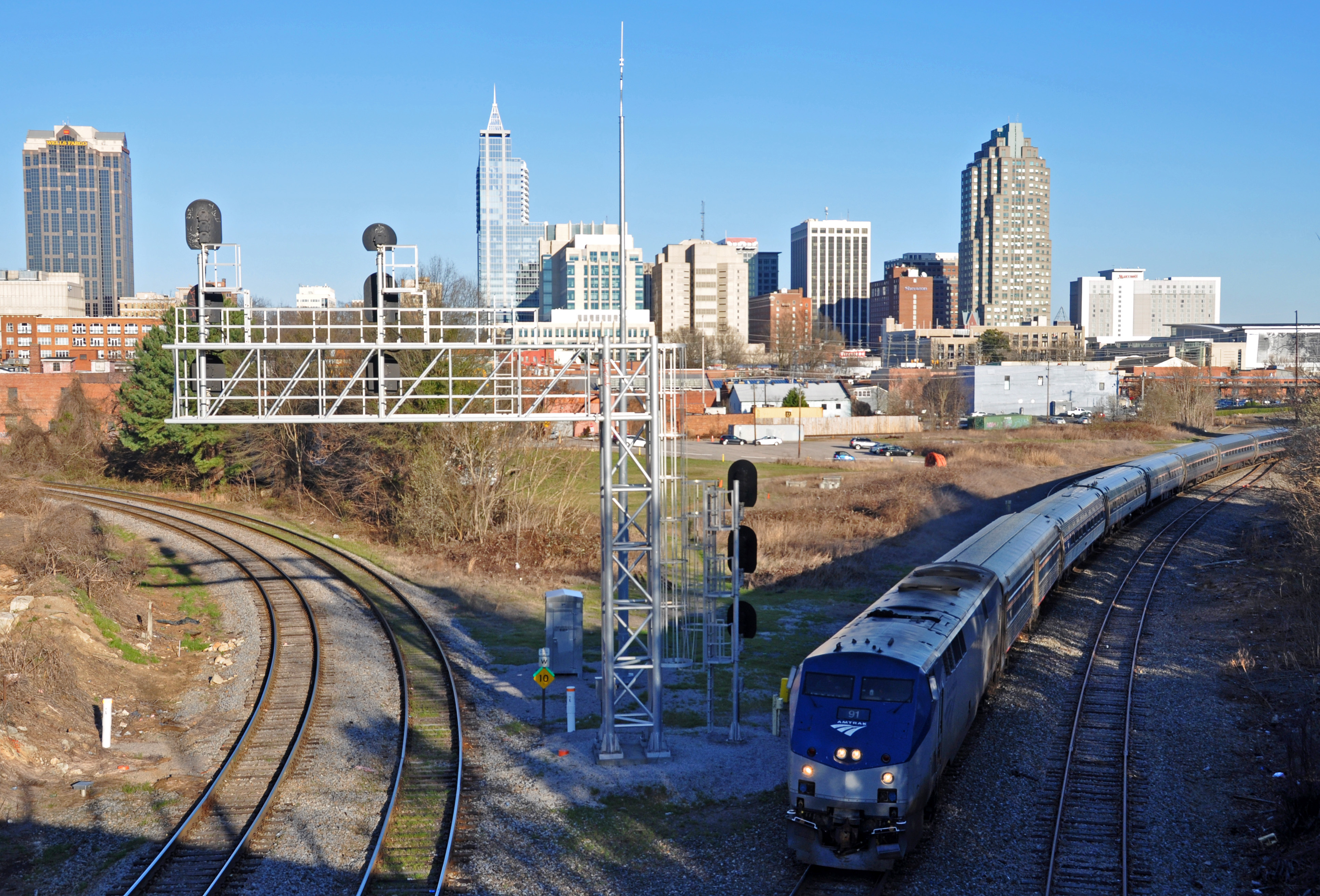 The Carolinian leaves Raleigh, North Carolina in March 2014